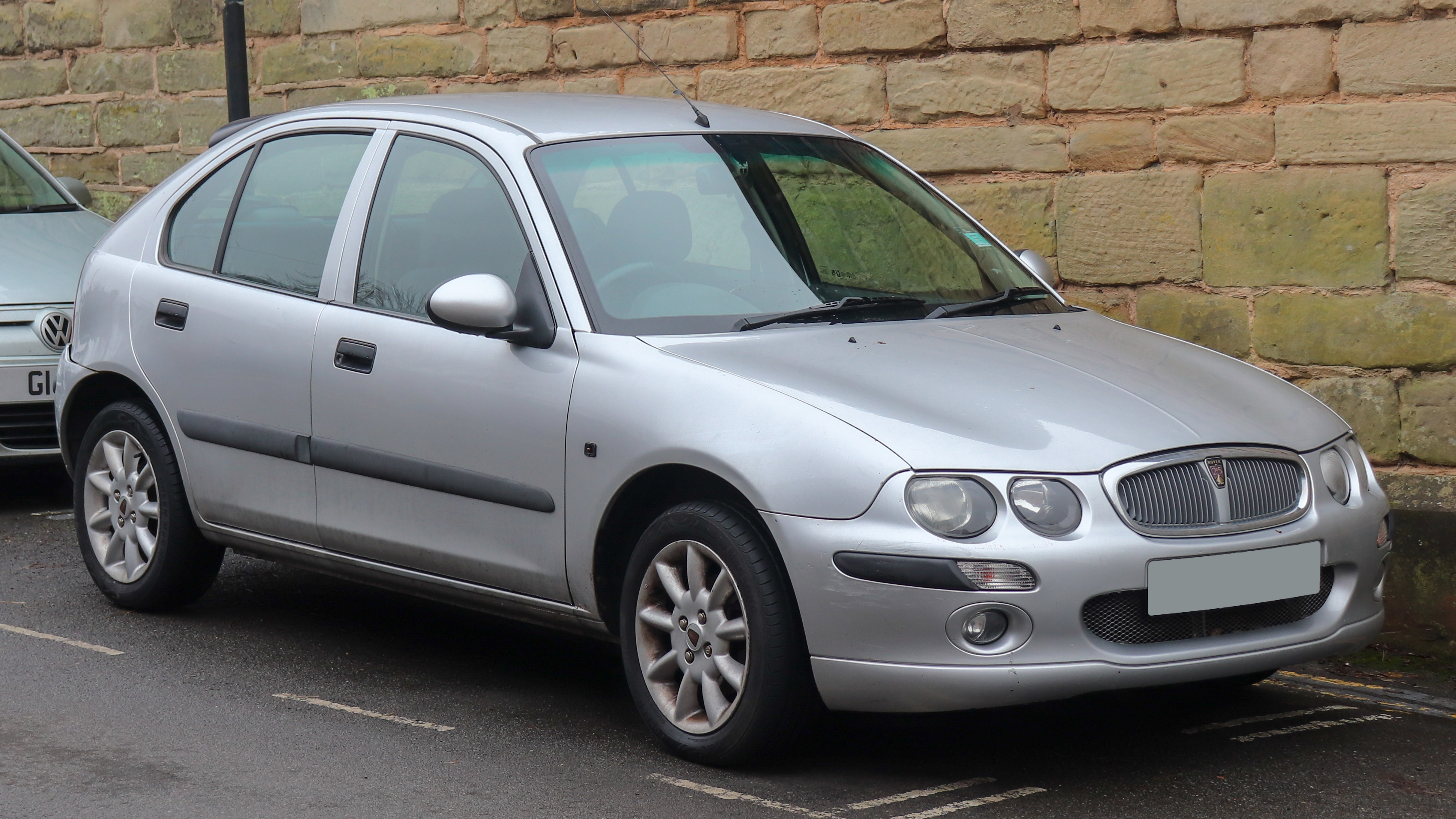 2003 Rover 25 Sprit S 1.4 Front Taken in Warwick